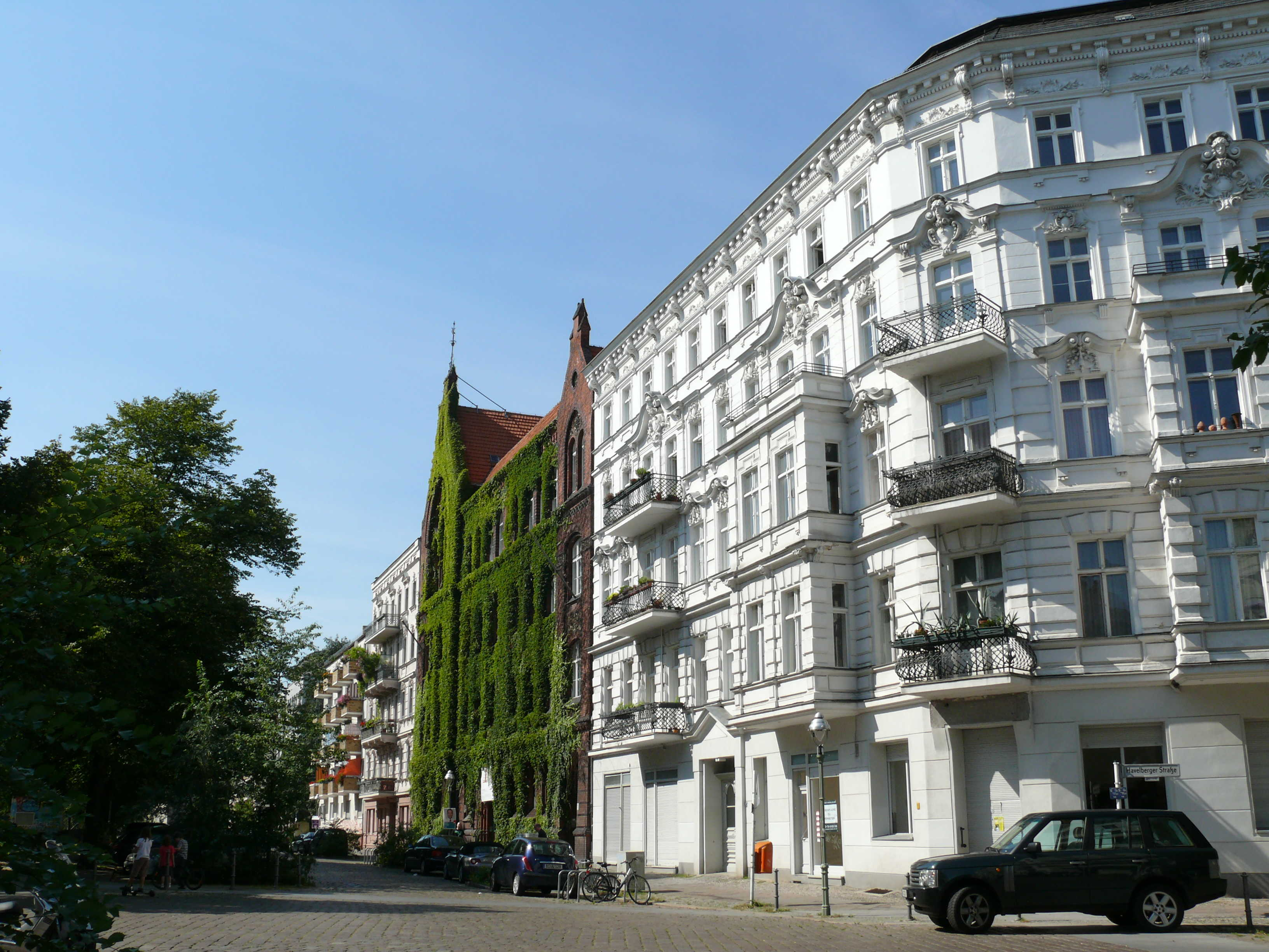 Berlin-Moabit Stephanstraße